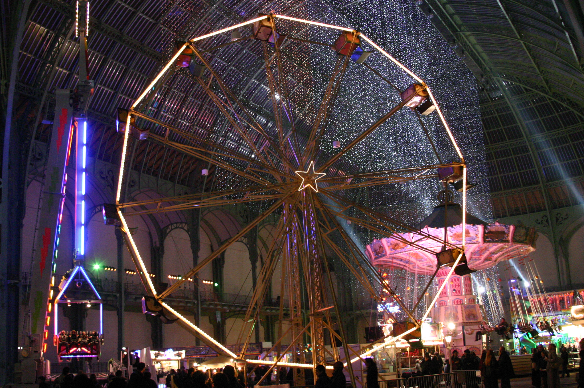 Grand Palais, Paris